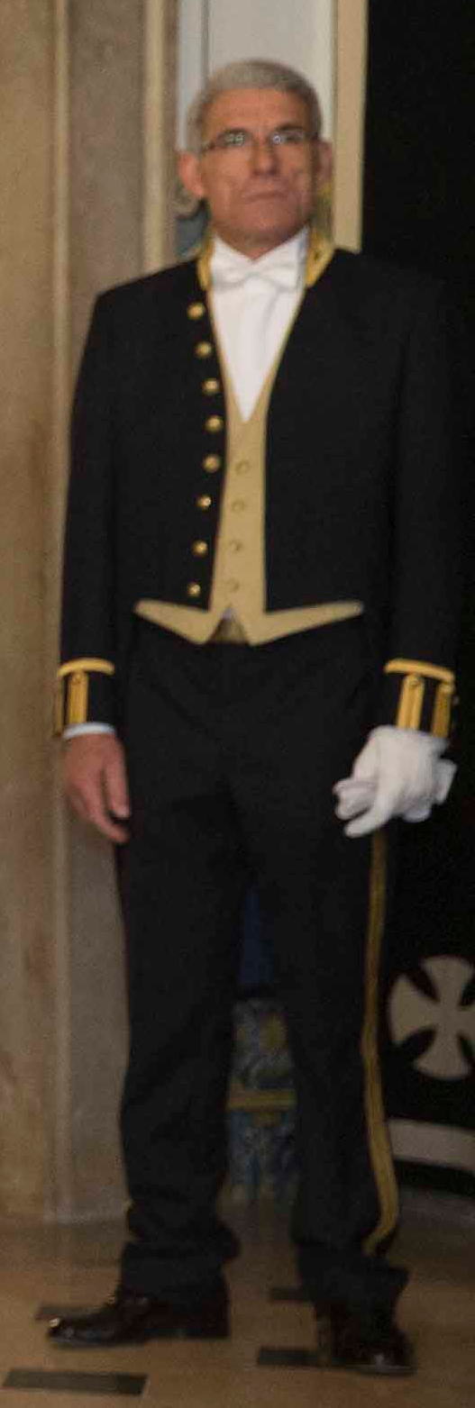 State Visit of President Enrique Peña Nieto to Portugal (5 June 2014). President Peña Nieto signs the book of honour as President of Portugal Cavaco Silva and their respective wives, Angélica Rivera and Maria Cavaco Silva, look on.